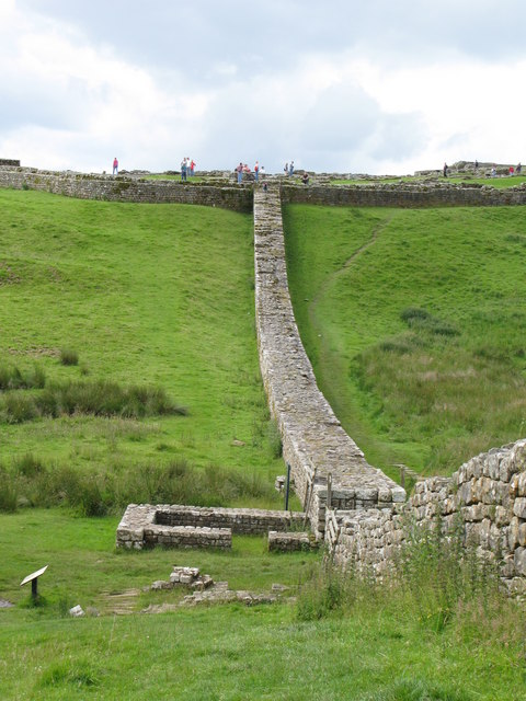 Knag Burn Gateway on Hadrian's Wall Housesteads on the horizon.